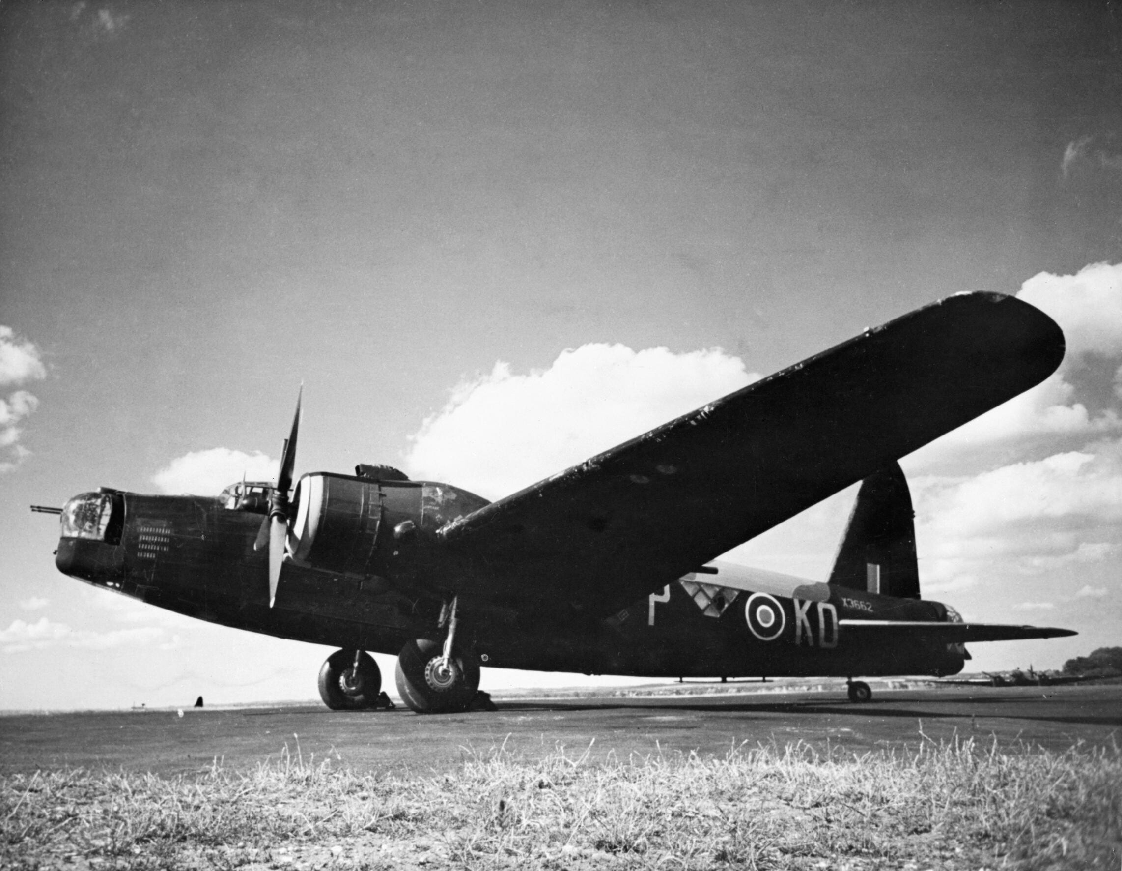 Vickers Wellington Mk III of No. 115 Squadron RAF, at Marham, Norfolk, June 1942. Wellington Mark III, X3662 ‘KO-P’, of No. 115 Squadron RAF, at Marham, Norfolk.